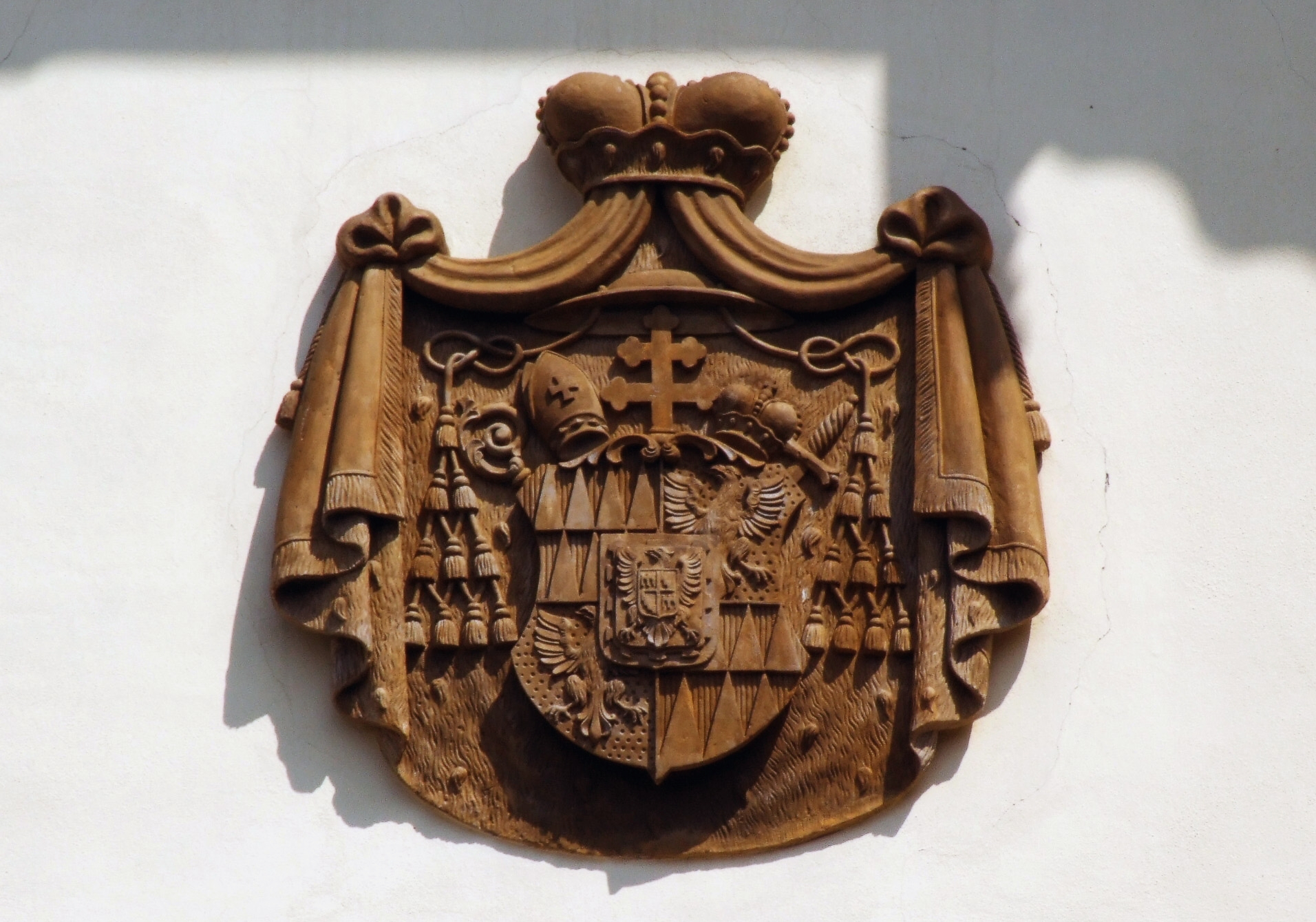 Coat of Arms of Archbishops of Olomouc - Hukvaldy (propably CoA of Friedrich Egon von Fürstenberg)